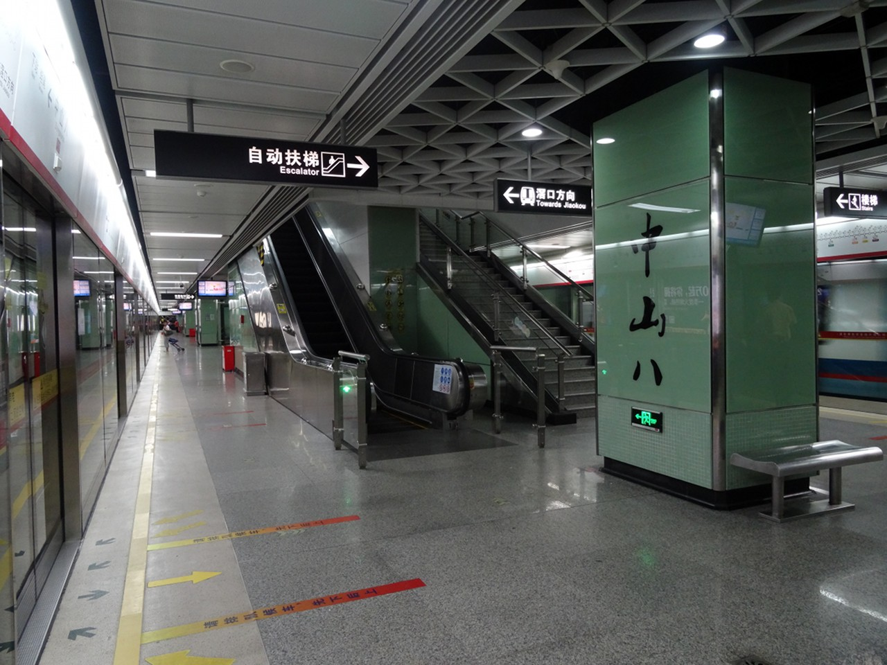 中山八站嘅月台（去滘口個邊）